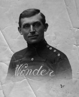 Jules Vanhevel racing for the french bike manufacturer WONDER.